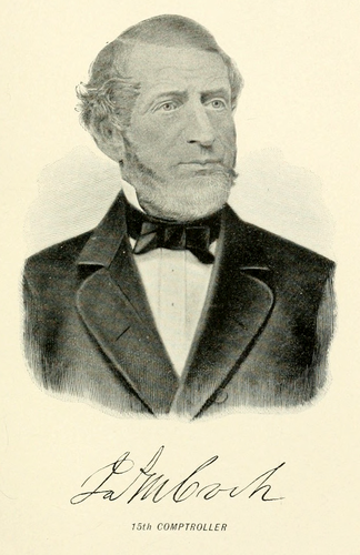 James M. Cook (NY Comptroller) Other information Originally from Roberts, James A.; _A Century in the Comptroller's Office, State of New York, 1797 to 1897_; Albany NY, James B. Lyon; 1897. Digitized by Richard J. Shiffer.